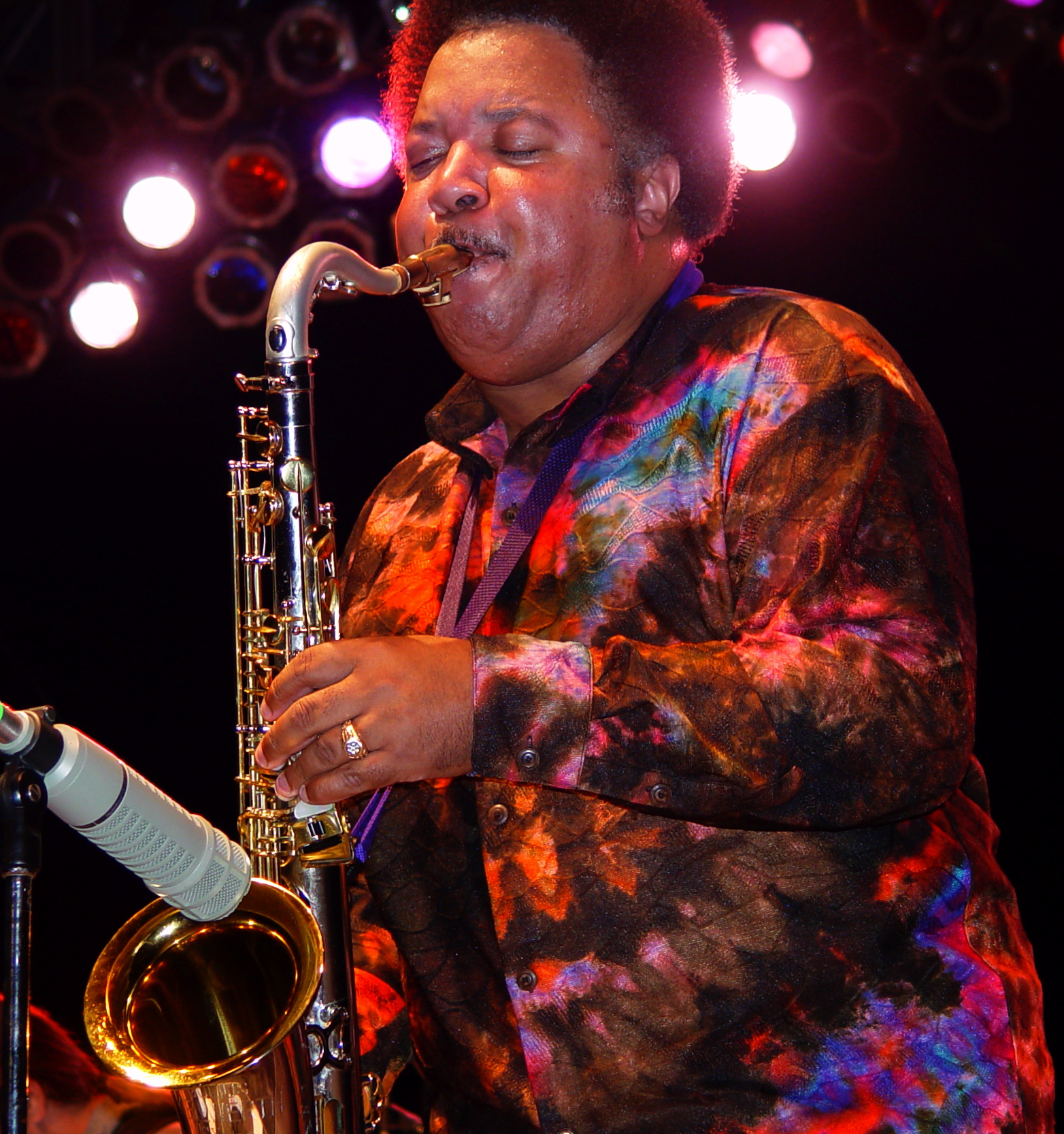 Ron Holloway, formerly of Dizzie Gillespie's last quintet, now playing here with Derek Trucks and Susan Tedeschi, 2007